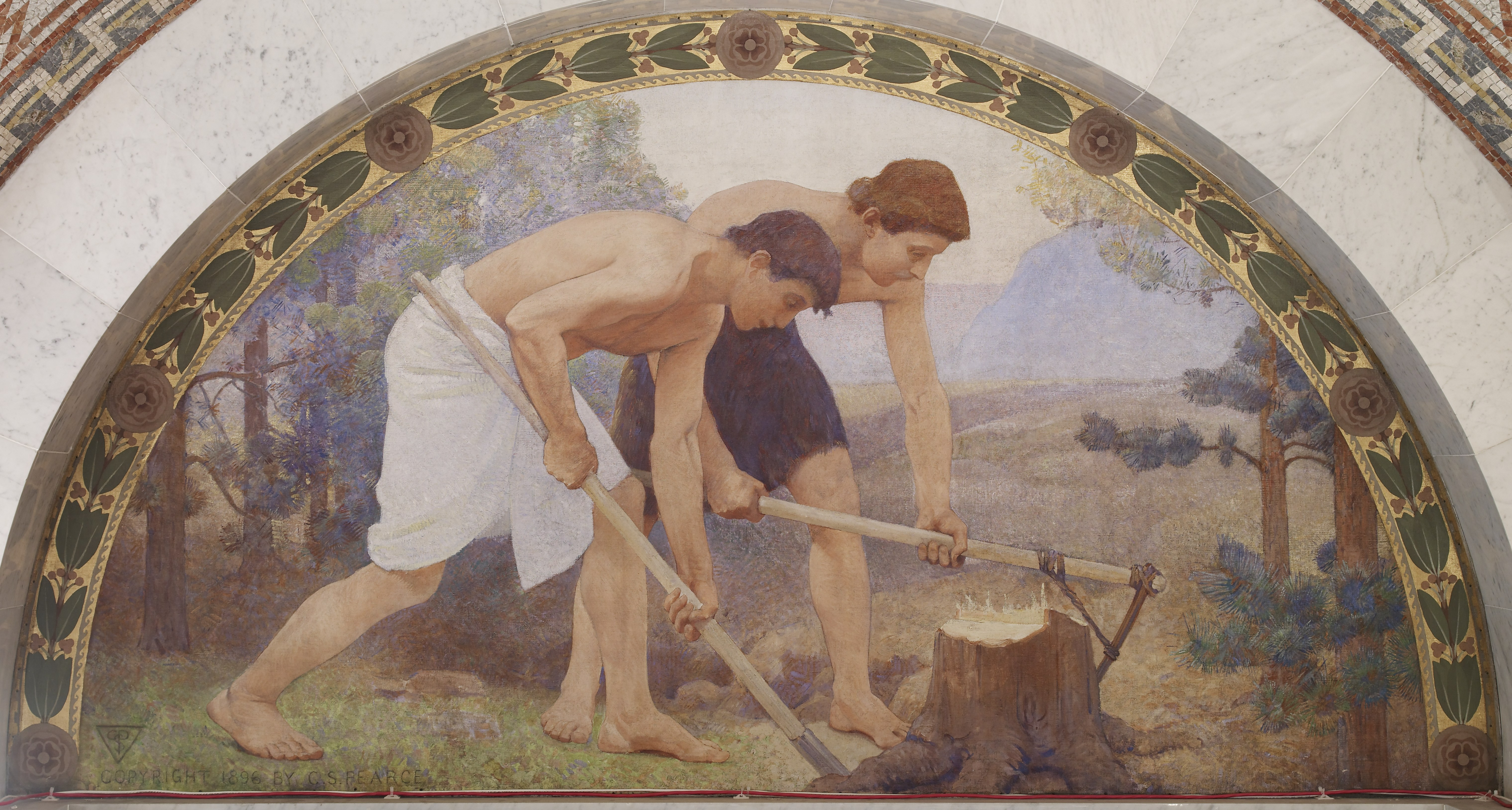 Labor mural in lunette from the Family and Education series by Charles Sprague Pearce. North Corridor, Great Hall, Library of Congress Thomas Jefferson Building, Washington, D.C. Mural contains artist's logo and "COPYRIGHT 1896 BY C.S.PEARCE".